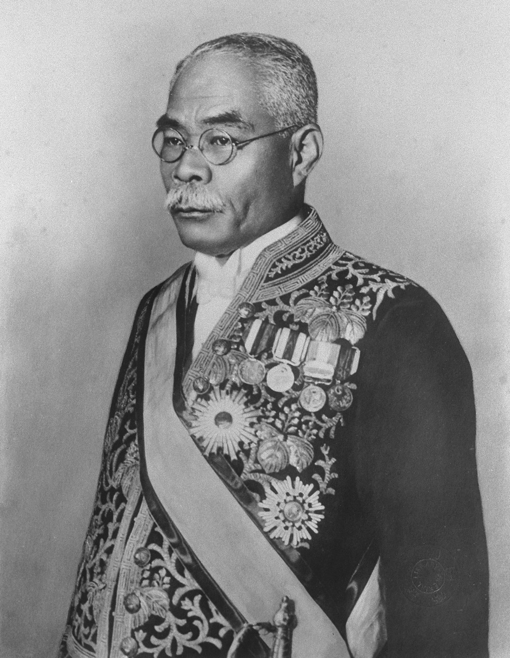 Portrait of Hamaguchi Osachi (浜口雄幸, 1870 – 1931)